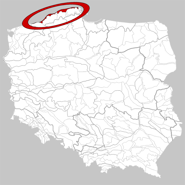 Physico-geographical regionalization of Poland: mezoregion 313.41 – Slovincian Coast.